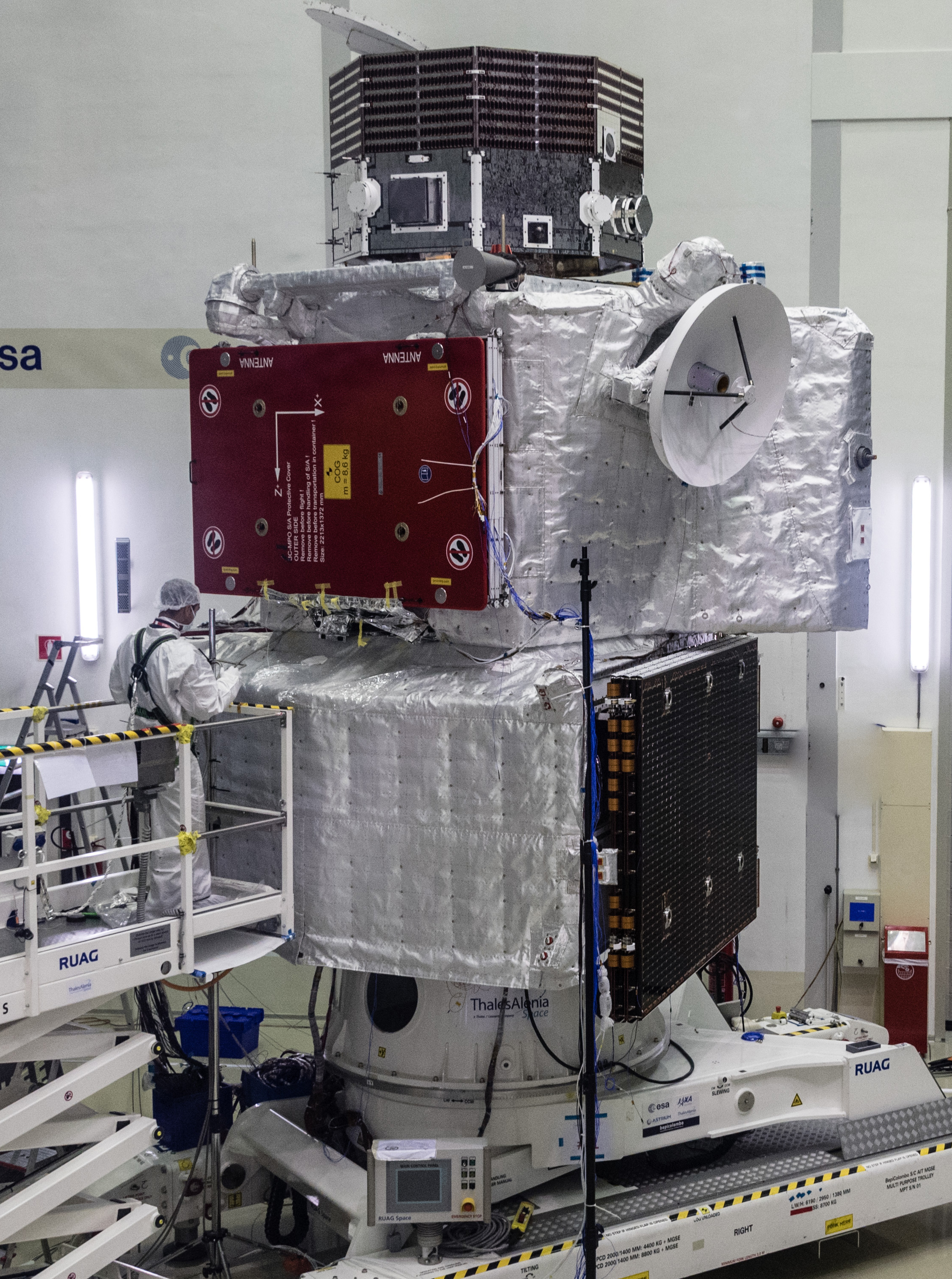 The complete BepiColombo spacecraft stack on 5 July 2017. From bottom to top: the Mercury Transfer Module (sitting on top of a cone-shaped adapter, and with one folded solar array visible to the right); the Mercury Planetary Orbiter (with the folded solar array seen towards the left, with red protective cover), and the Mercury Magnetospheric Orbiter (MMO). The Mercury Magnetospheric Orbiter’s Sunshield and Interface Structure (MOSIF) that will protect the MMO during the cruise to Mercury is not visible in this cropped image